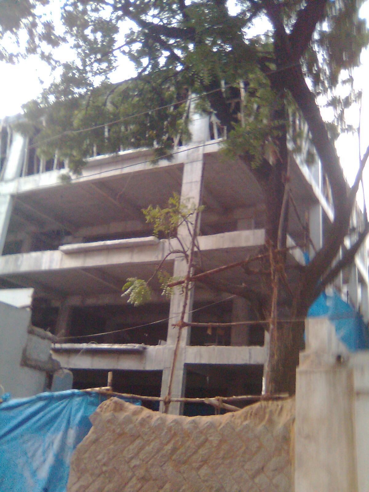 Underconstruction Building